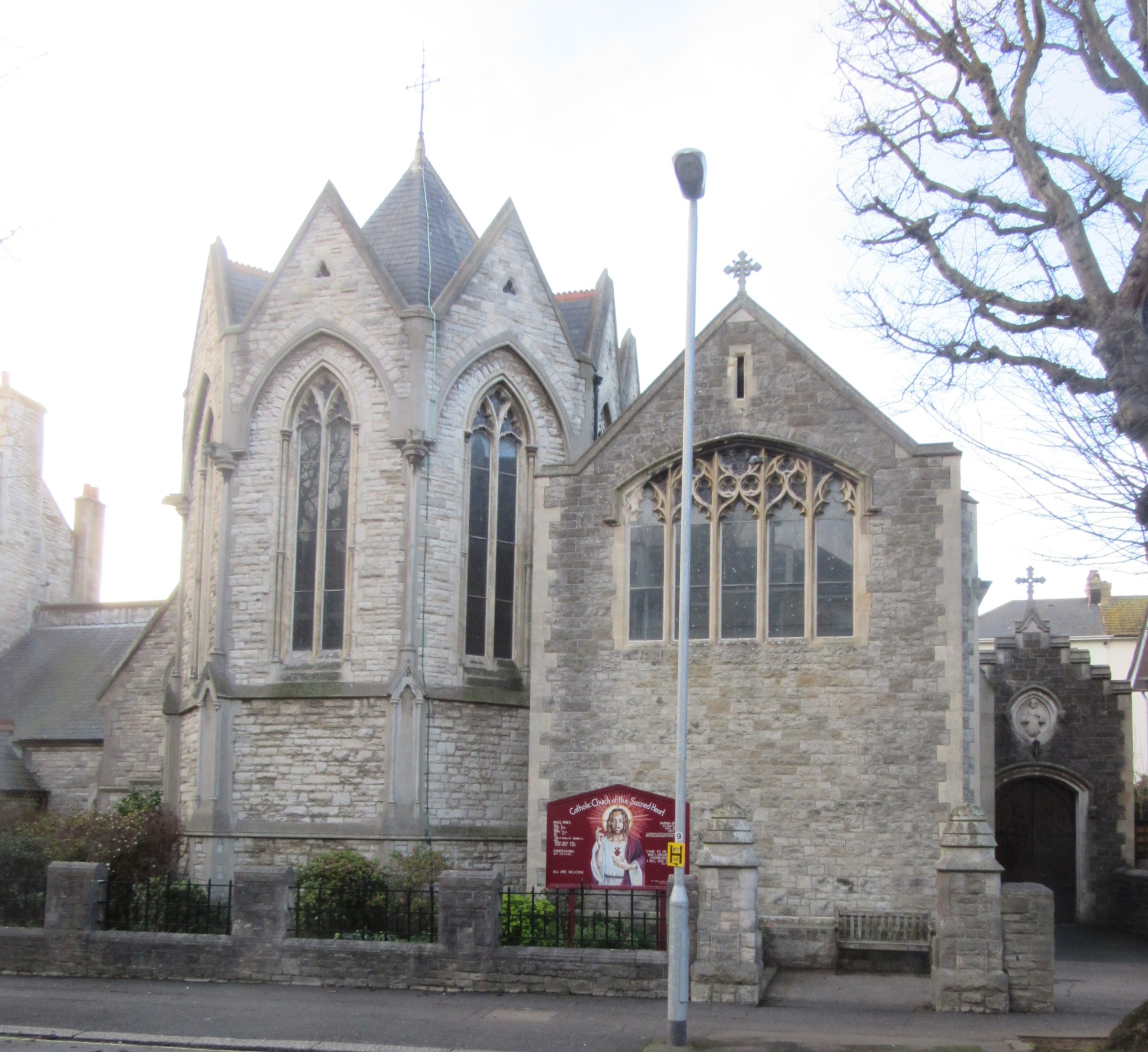 Church of the Sacred Heart, 41 Norton Road, Hove, City of Brighton and Hove, England.